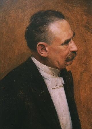 The portrait of composer and pianist Franz Xaver Scharwenka